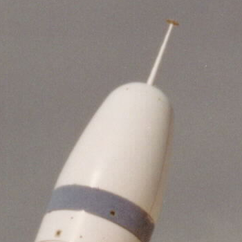 Detail crop of nose and aerospike of Trident missile